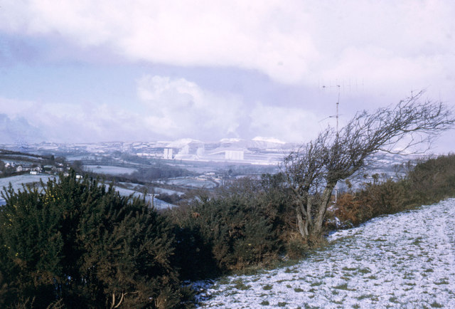 Panoramic view of the clay processing plants at Burngullow and Black. Panoramic view of the clay processing plants at Burngullow and Blackpool from Tregongeeves (the Blackpool Dryers and Mills)